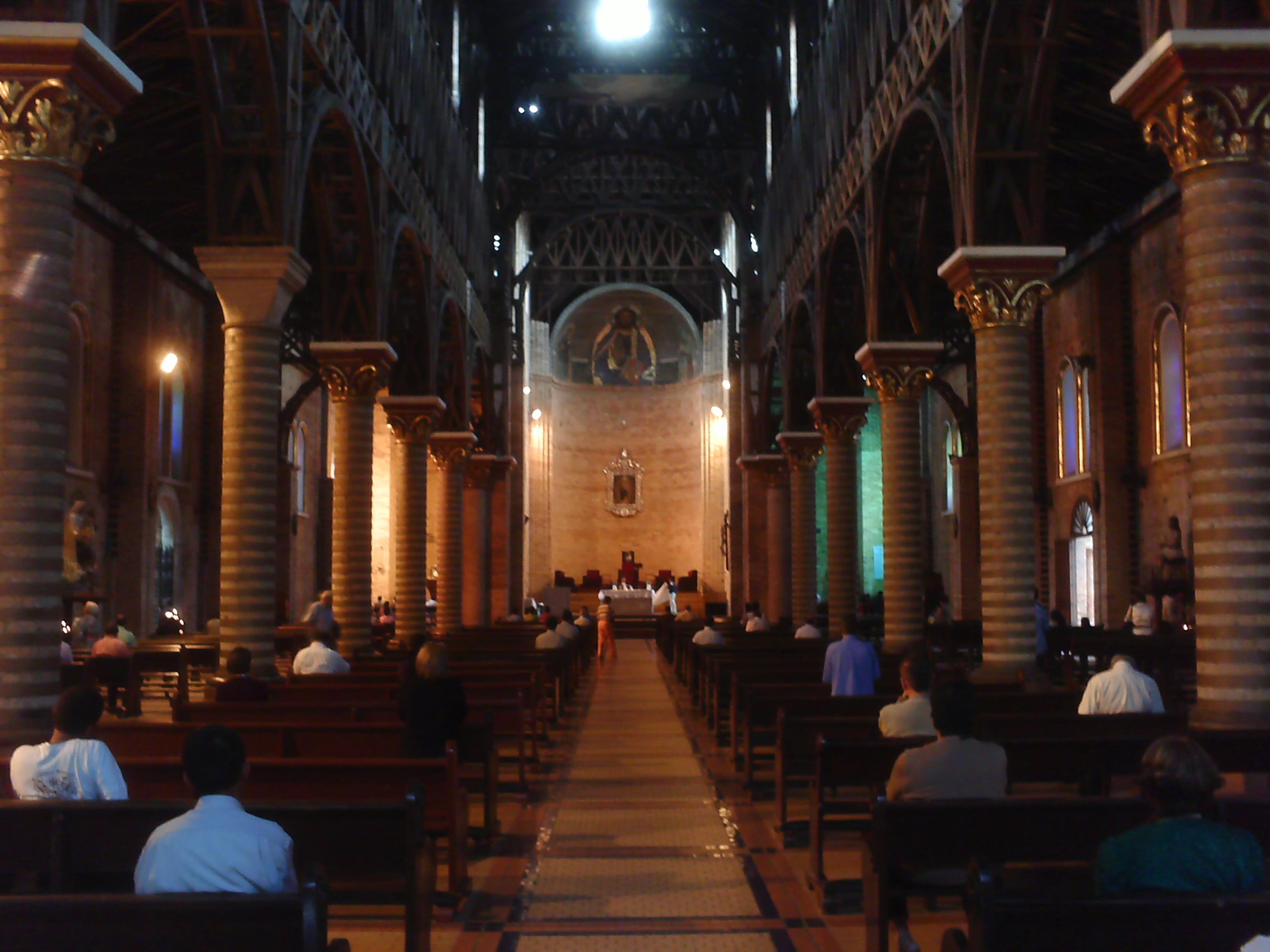 Cathedral of Pereira interior view